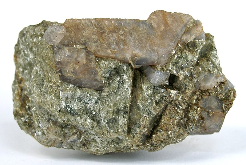 Lawsonite Locality: Reed Station, Tiburon Peninsula, Marin County, California, USA (Locality at ) Size: 6.1 x 3.2 x 2.5 cm. This specimen is from the type locality in California. It features two elongated, lustrous and translucent crystals of pastel pink, lawsonite, in crystals to 4.0 cm in length. This very rare species, embedded in a mica schist, is a calcium, aluminum silicate. Ex. John Ydren collection.